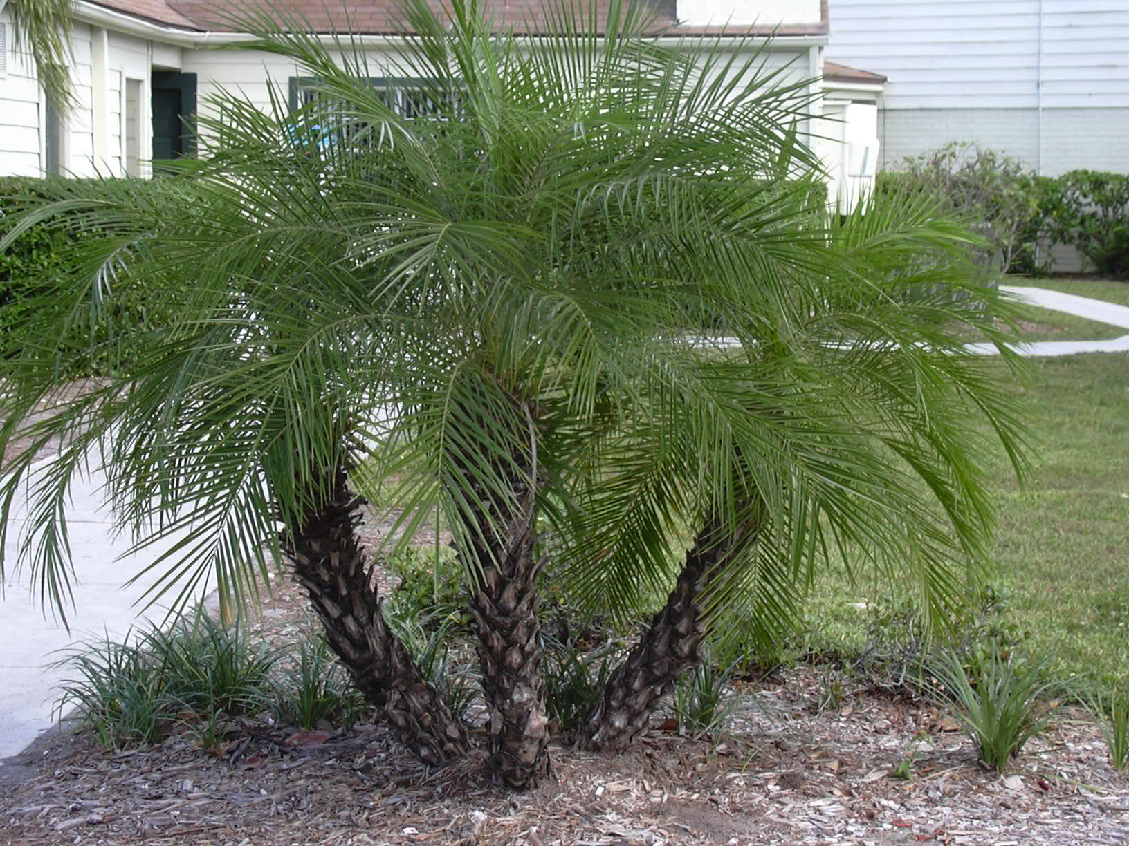 Phoenix roebelenii (habit). Location: Florida, Sarasota